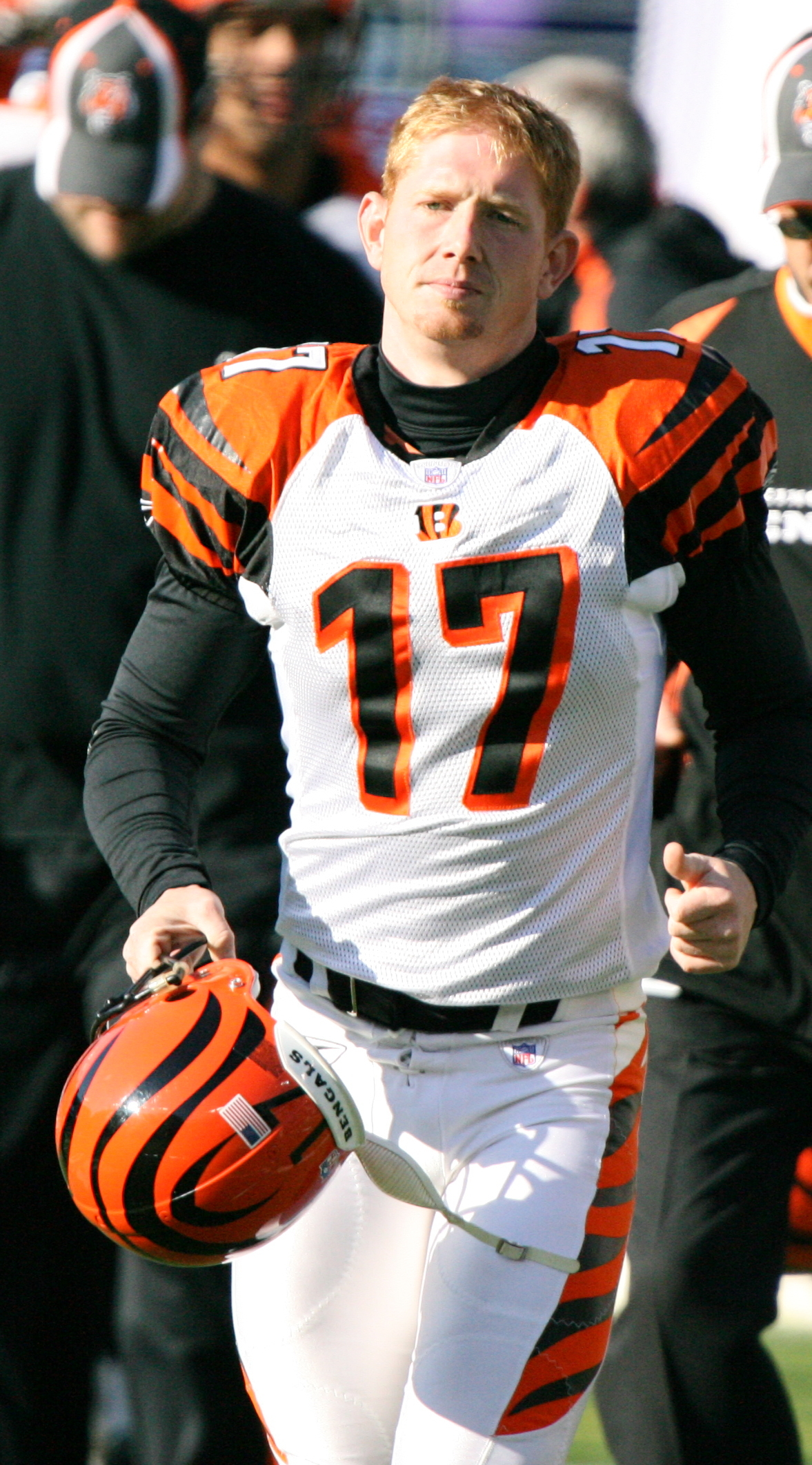 Shayne Graham, American football player for the Cincinnati Bengals